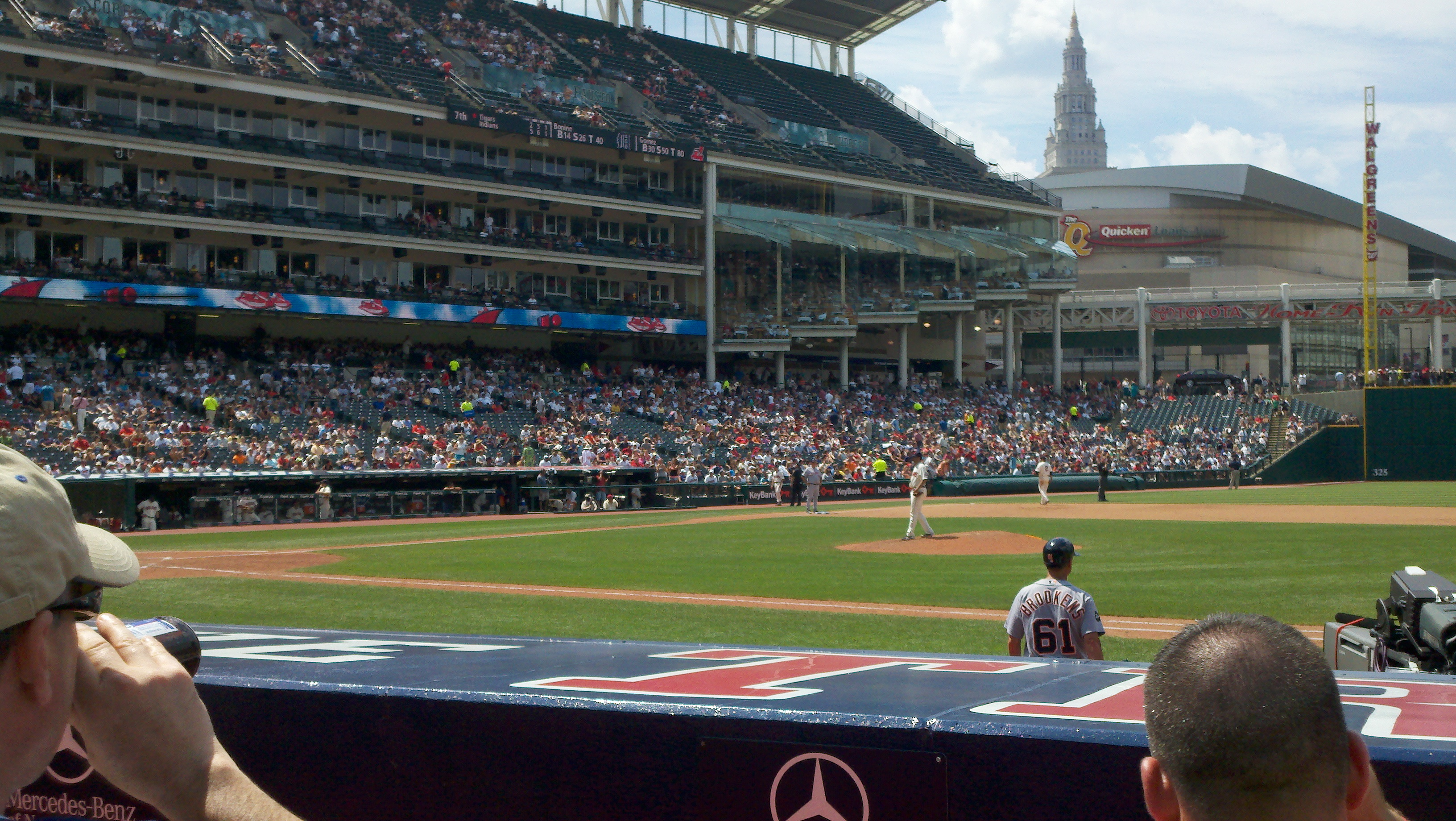 A view from the lower deck with Quicken Loans Arena and the Terminal Tower in the backround